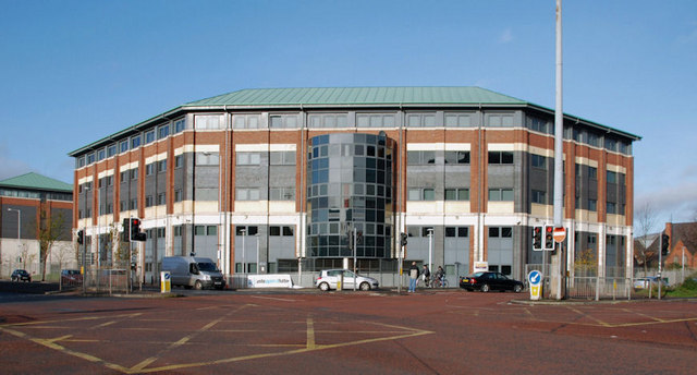 Millfield Tech, Belfast Now rebuilt and known as the Millfield Campus of the Belfast Metropolitan College.